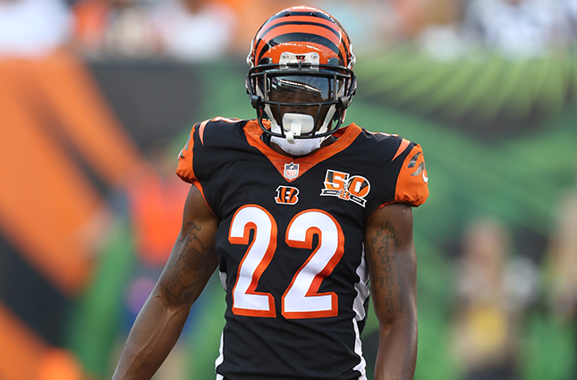 William Jackson in 2017 with the Cincinnati Bengals.